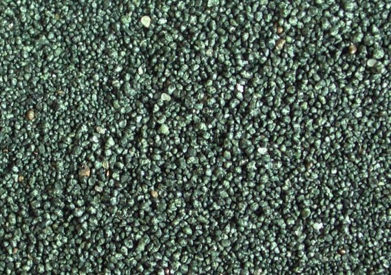 A sample of glauconitic sand from Miocene deposits in a Netherlands borehole.